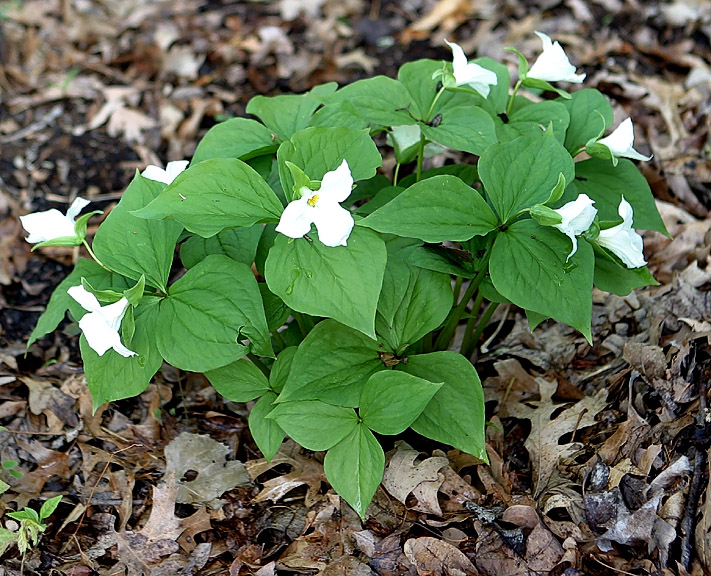 Paul Henjum Self made, Trillium cernuum x Trillium grandiflorum hybrid take in Minnesota. 05/03/2007